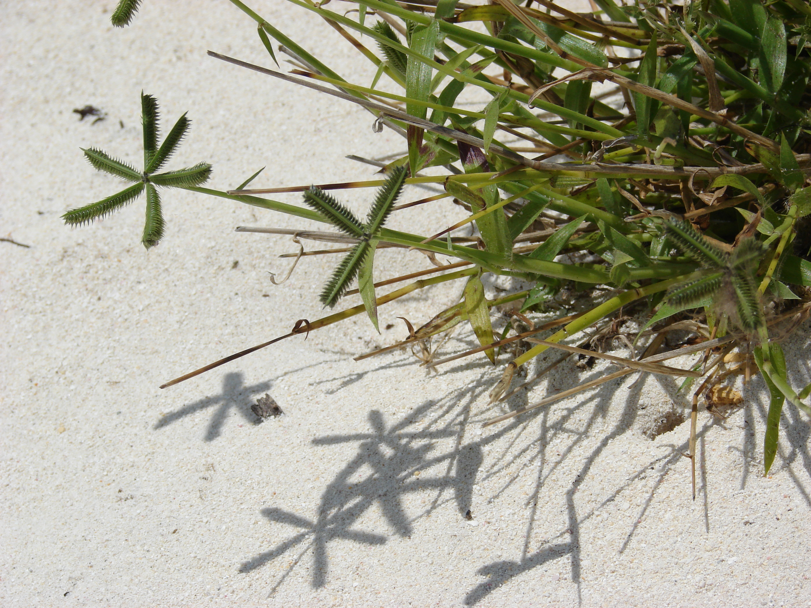 Dactyloctenium aegyptium (fruiting habit). Location: Midway Atoll, Rusty bucket Sand Island